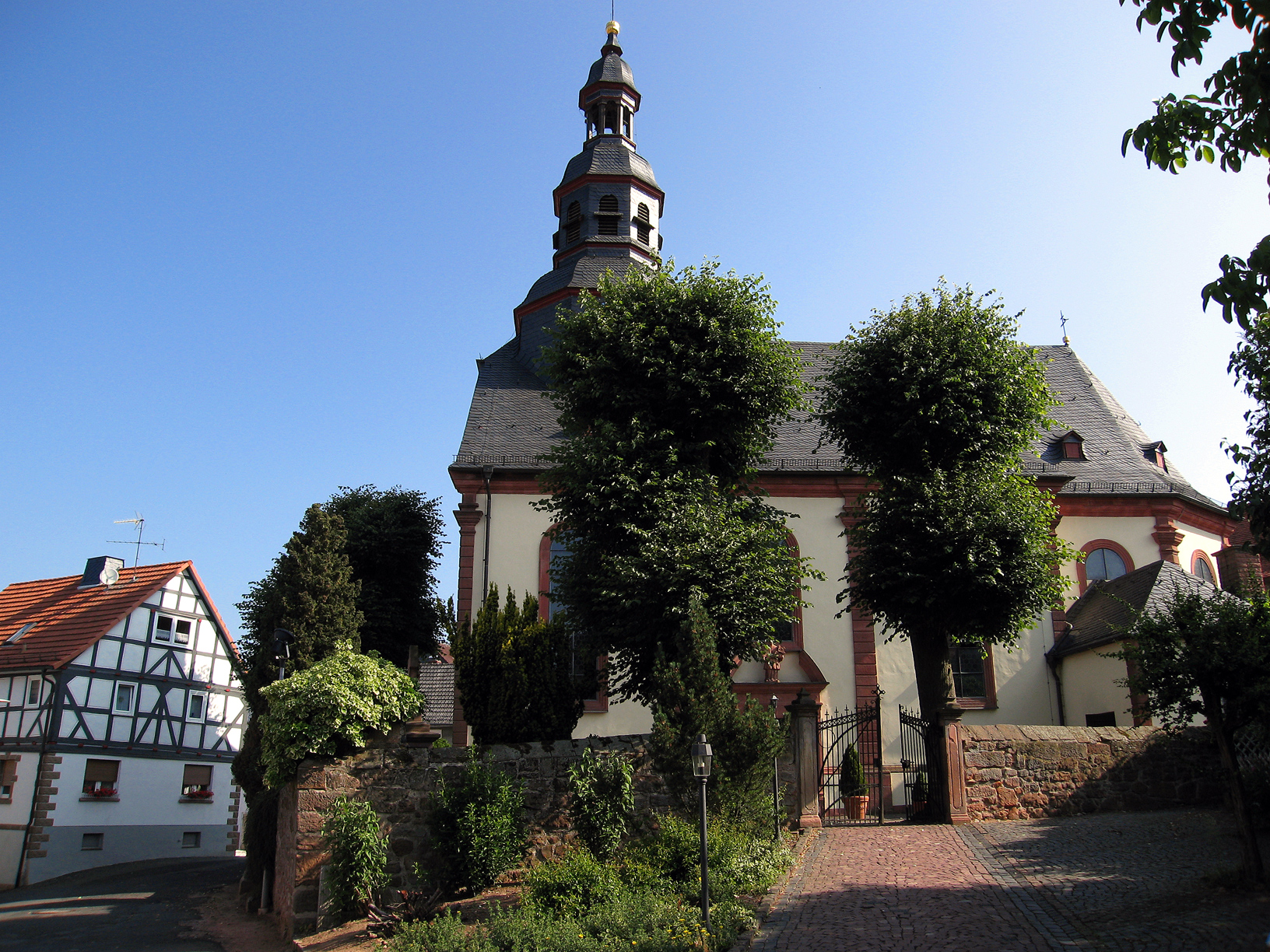 The church of Emsdorf, small village in the area of Kirchhain